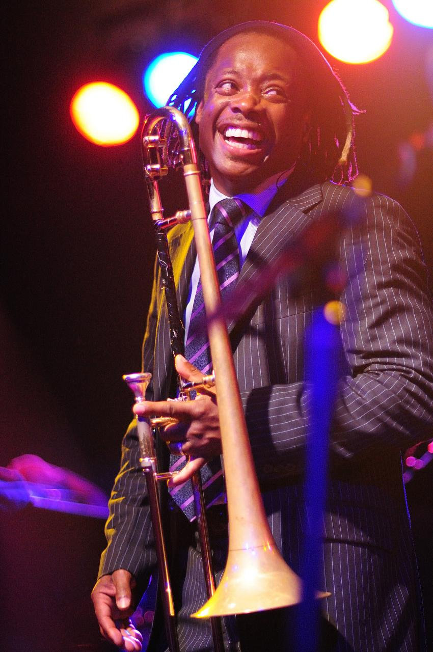 Dwnnis Rollins laughing. and performing in concert, playing his trombone on concert on April 17, 2008